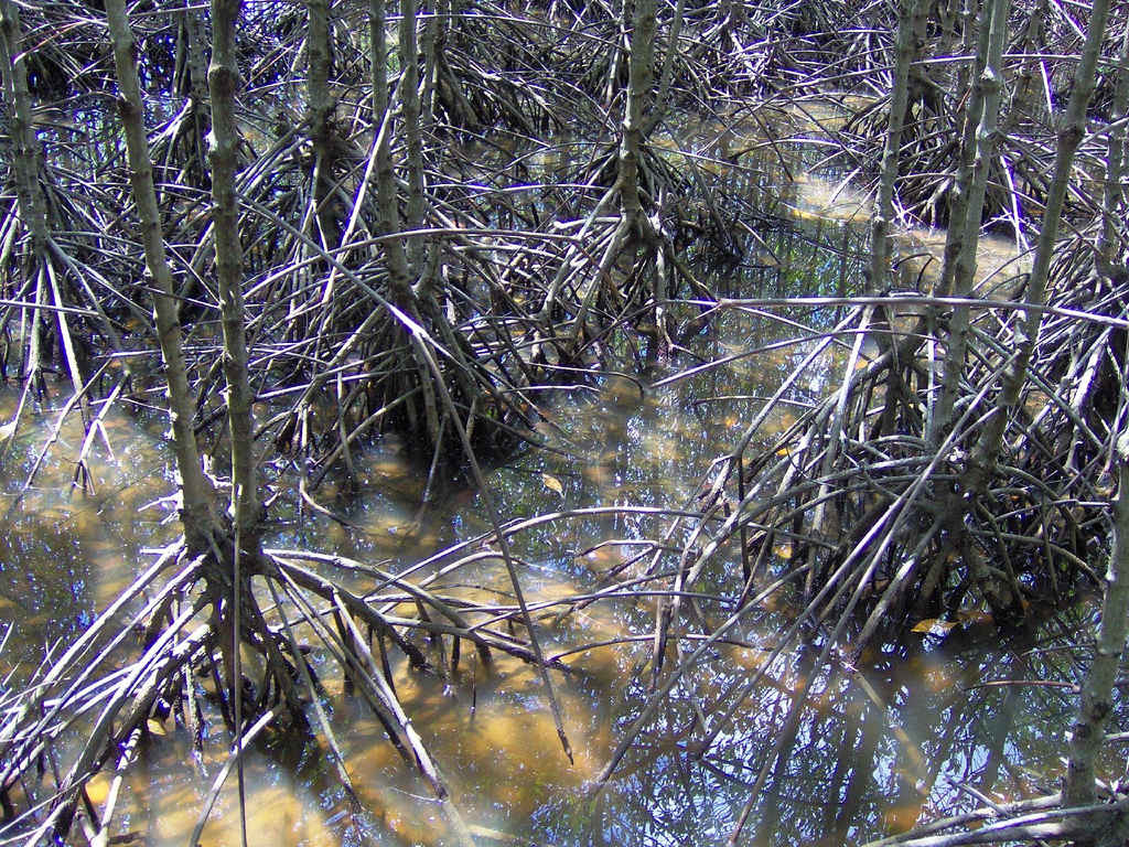 Cần Giờ mangrove forest, Hồ Chi Minh city, Vietnam